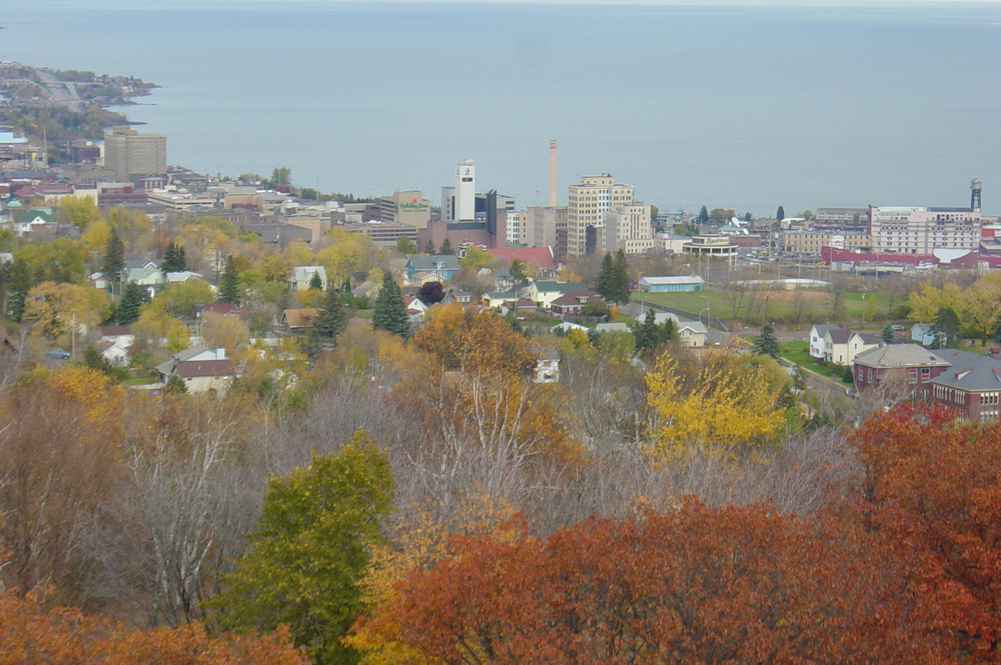 Shot facing Duluth's Canal Park and Downtown districts. Taken from Enger Tower. Photographer: Jacob Norlund (me)